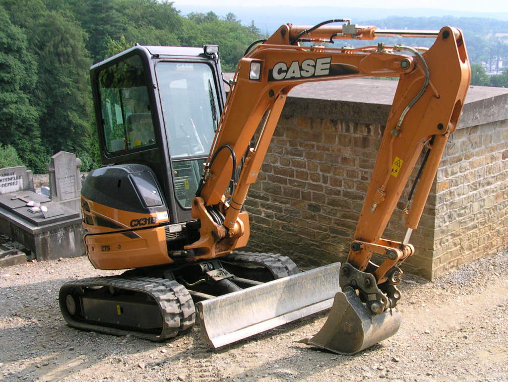 small CASE excavator CX31B